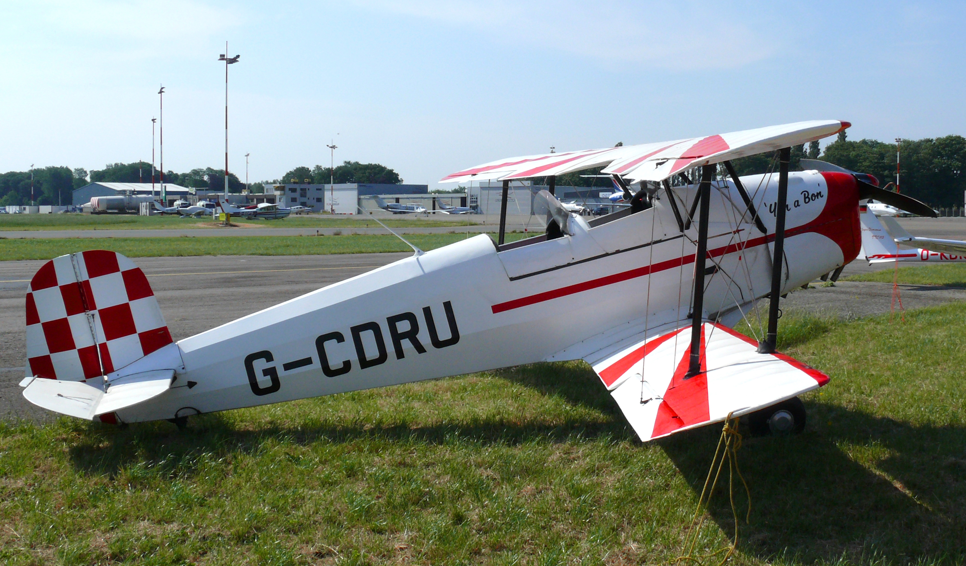 Spanish license built Bücker Bü 131 Jungmann (Construcciones Aeronauticas Sa) G-CDRU c/n 2321, at the Stampe Fly In 2011